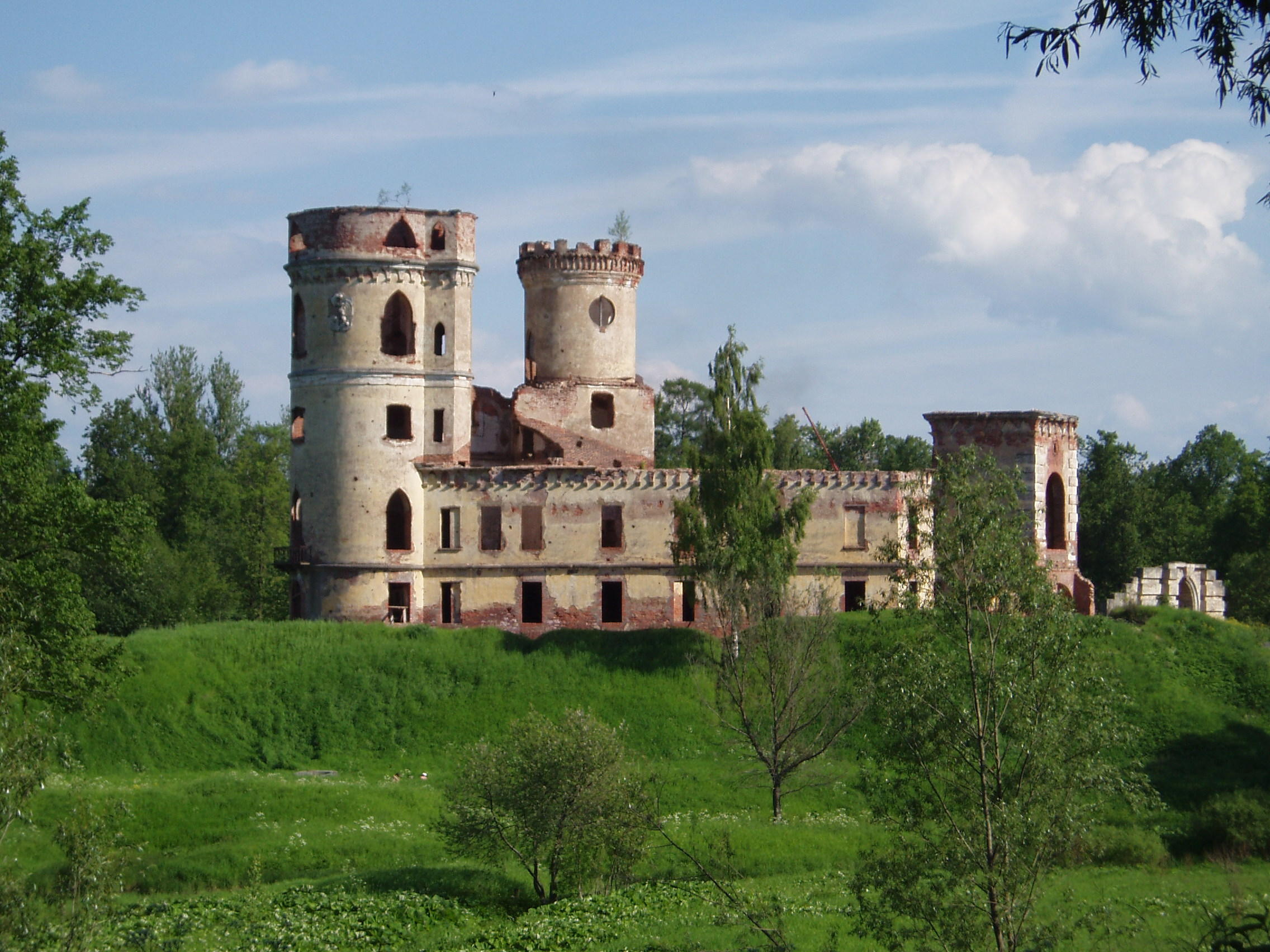 Fort Bip in Pavlovsk, Saint Petersburg. The fort was built in 1798 for for amusement of emperor Paul I of Russia but severely damaged during the World War II. Крепость Бип, Павловск, Санкт-Петербург.